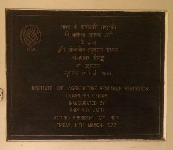 Foundation stone for the computer centre building at the Indian Agricultural Statistics Research Institute, New Delhi, India